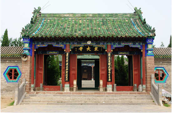 Kaifeng east mosque